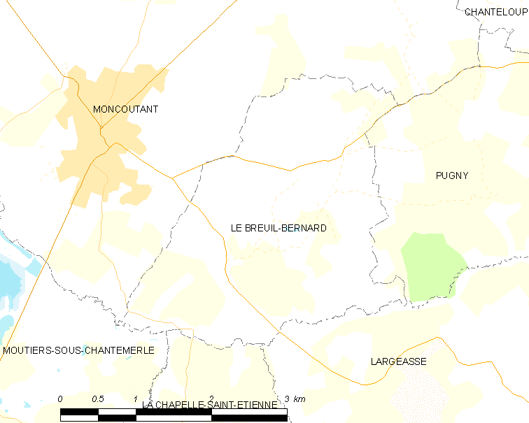 Map of French municipality Le Breuil-Bernard